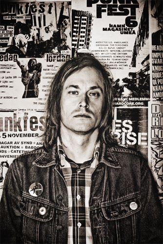 Photo: Alexander Fyrdahl